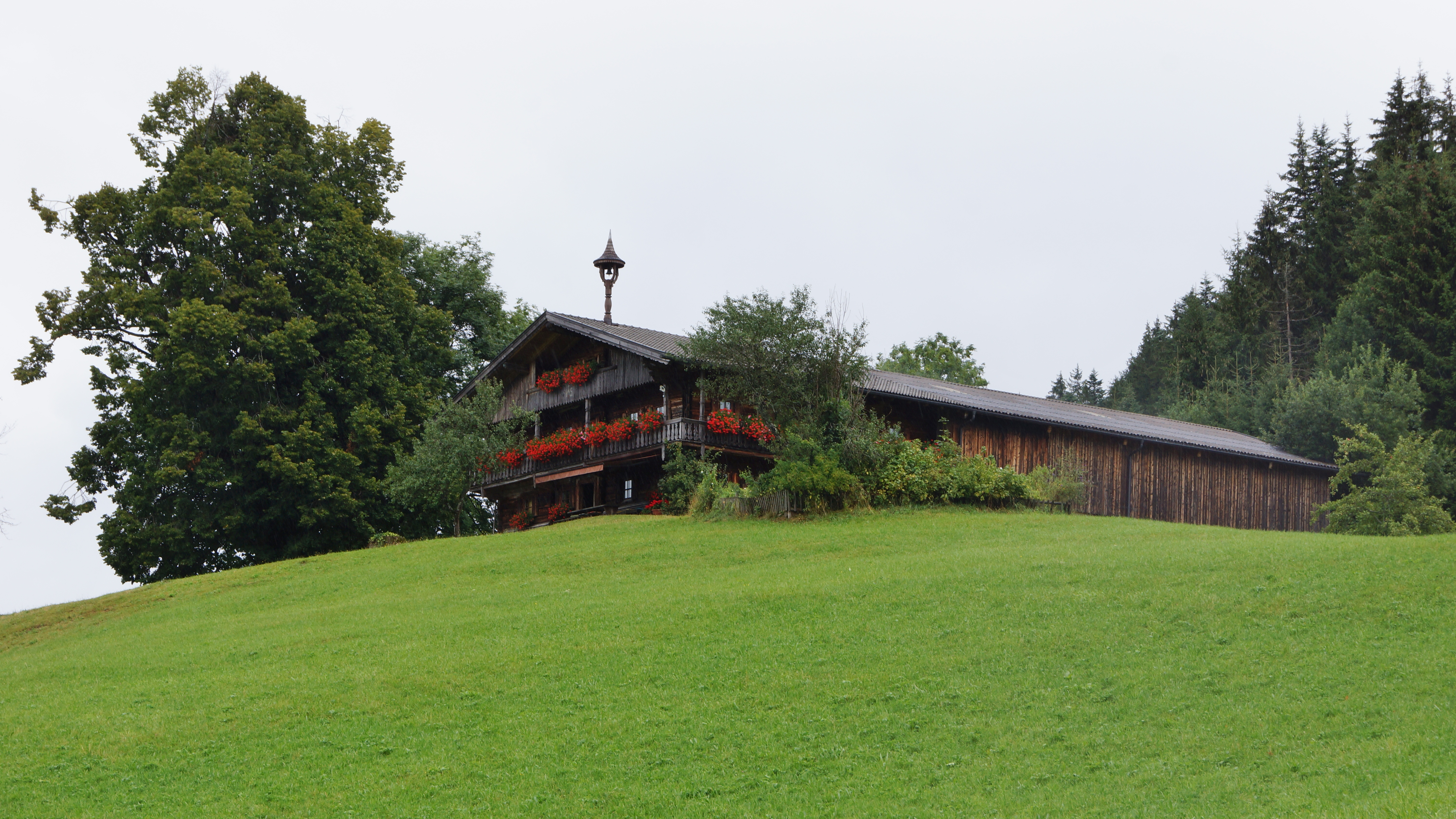 Austria